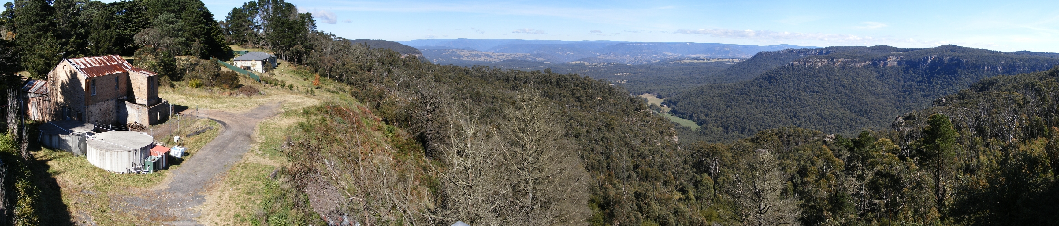 This was image was taken out the back of the Hydro Majestic Hotel in the Blue Mountains (Australia). This is 9 stitched portrait photographs slightly cropped at the bottom to remove the handrail. I don't think there is any photo shopping in the image.